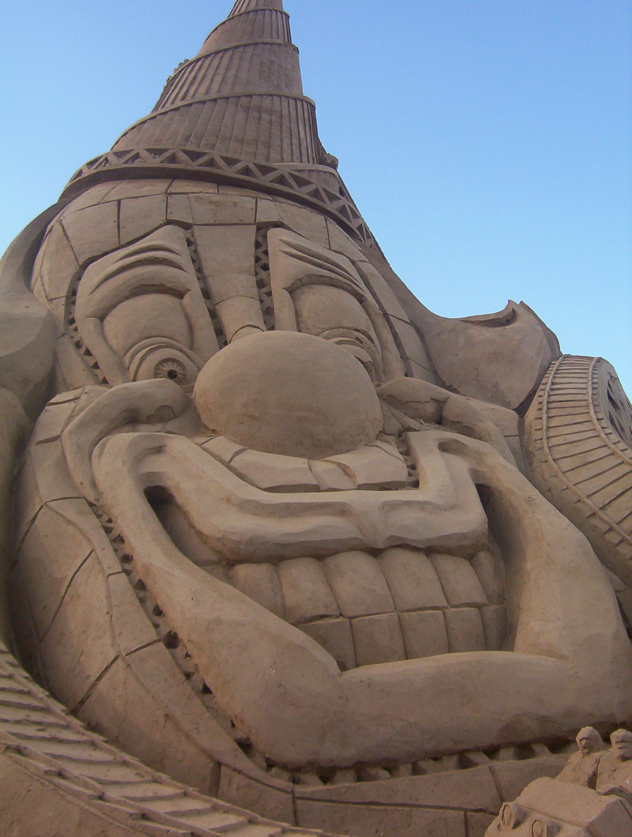 A clown made of sand for Sand World 2006